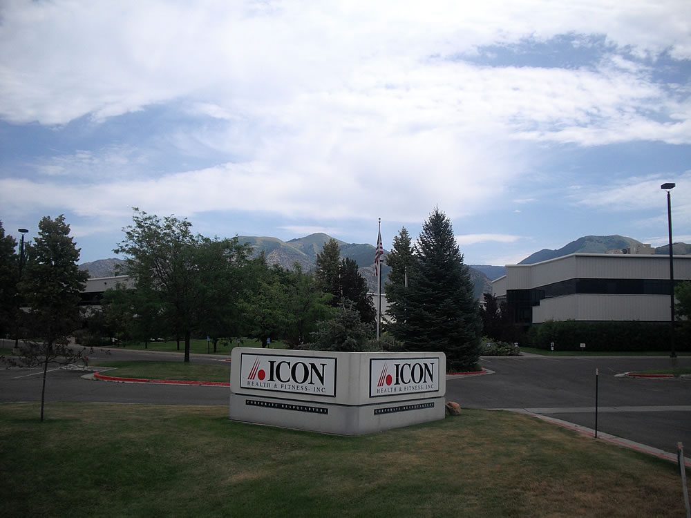 Icon Health & Fitness Corporate headquarters in Logan, Utah